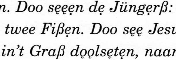 Scan from: Wolfgang Lindow et al., Niederdeutsche Grammatik, Bremen (Germany) 1998, ISBN 3-7963-0332-3, p. 48 – showing the letters ẹ, e᪷ and o᪷ (e and o with U+1AB7 combining open mark below) used in the Low German orthography "Bremer Schreibung"